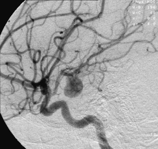 Angiograph of an aneurysm in a cerebral artery.